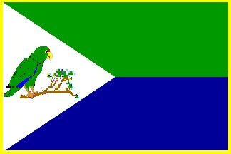 Flag of Rio Grande